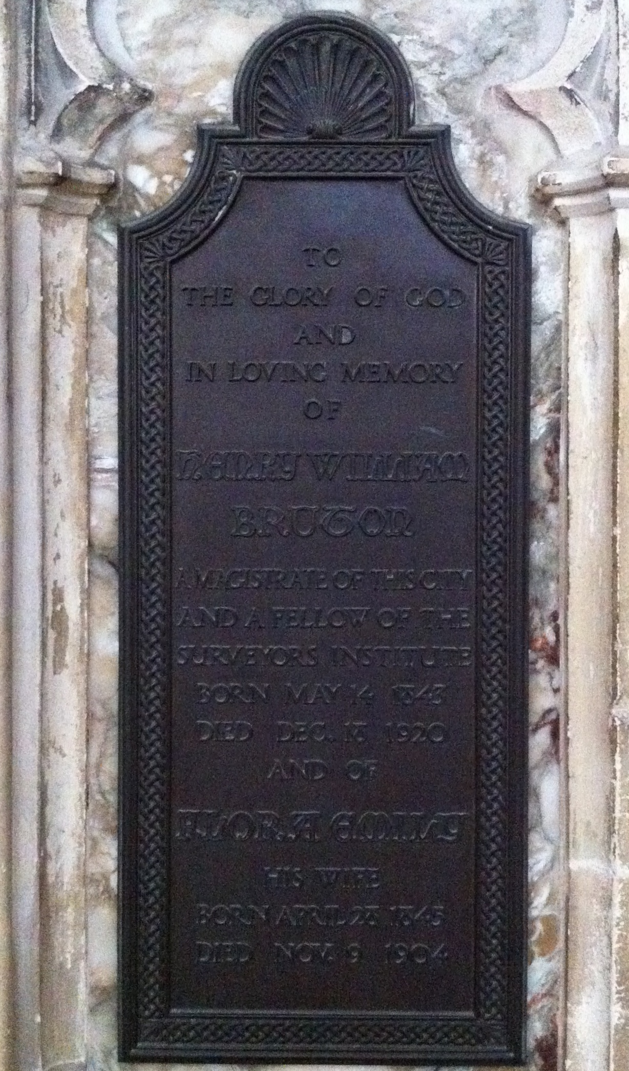 To the Glory of God and in loving memory of Henry William Bruton, a magistrate of this city and a fellow of the Surveyors Institute. Born May 14 1843, Died Dec 13 1920.